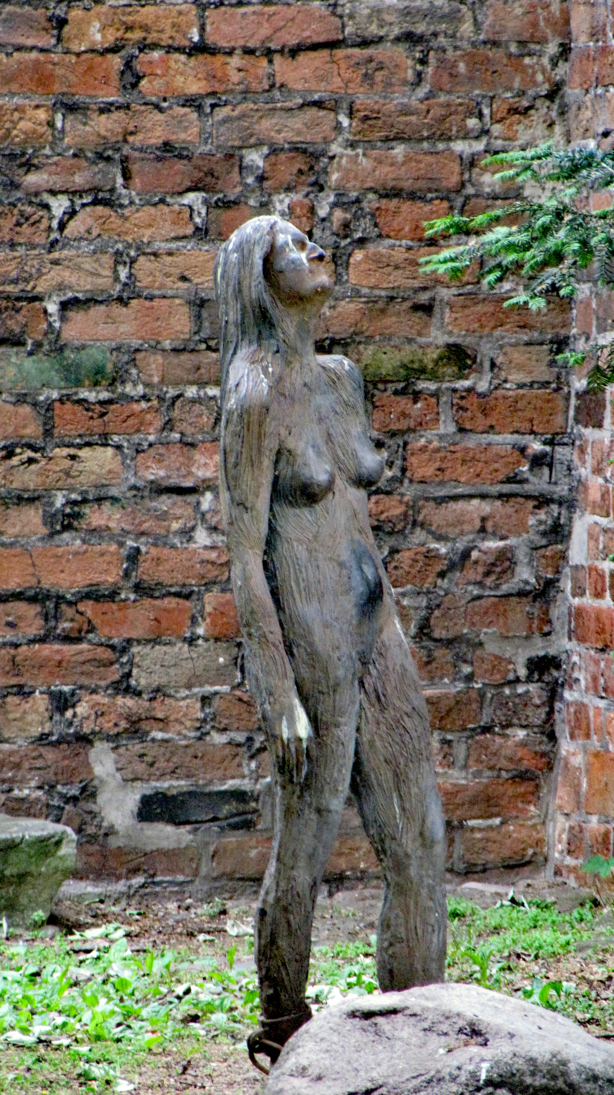 Kiki Smith: Mary Magdalen, in the courtyard of the Kulturforum Burgkloster, Lübeck ; the picture was taken from publicly accessible point outside the gate